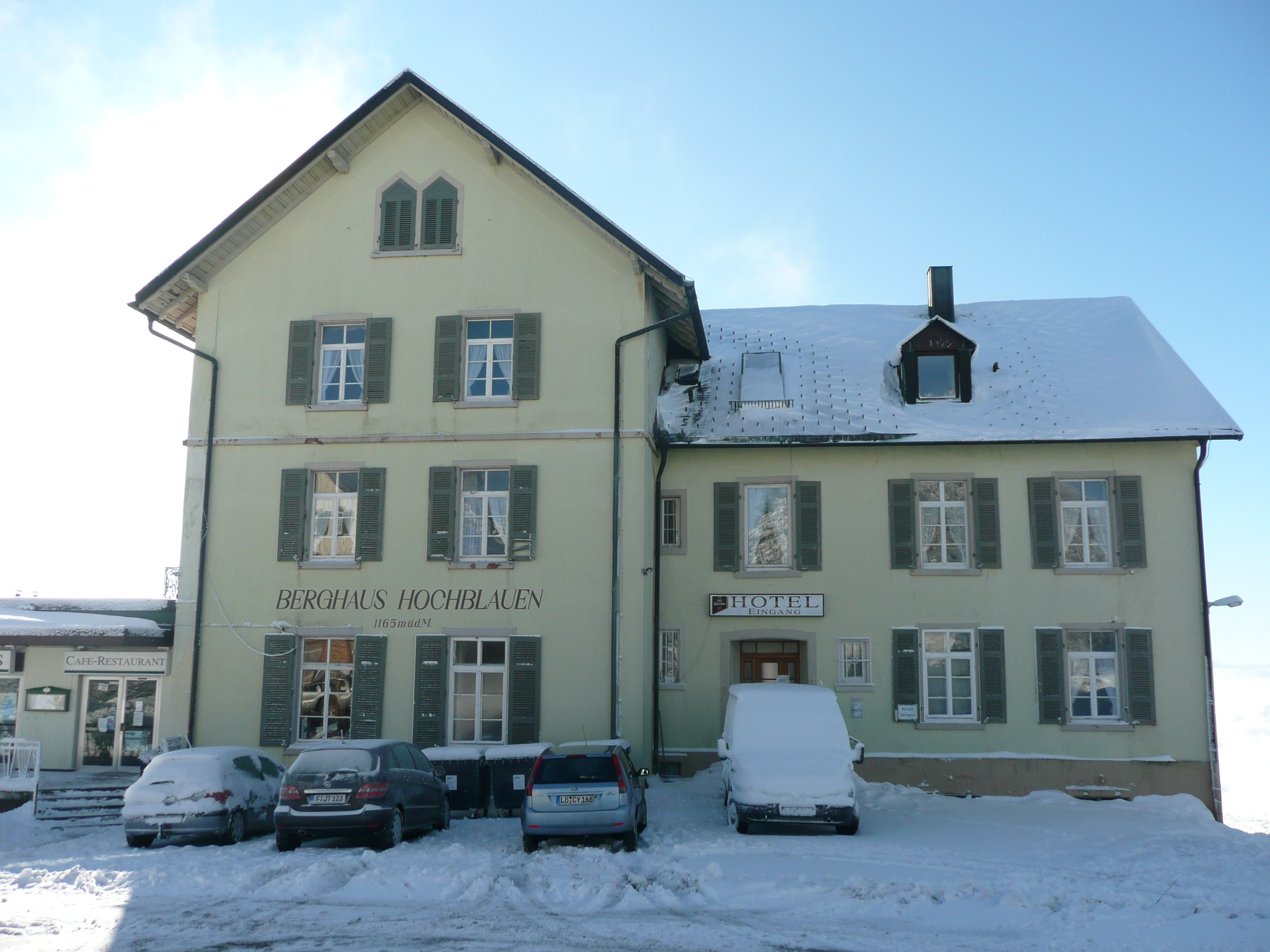 Mountain Hochblauen of the Black Forest near Badenweiler